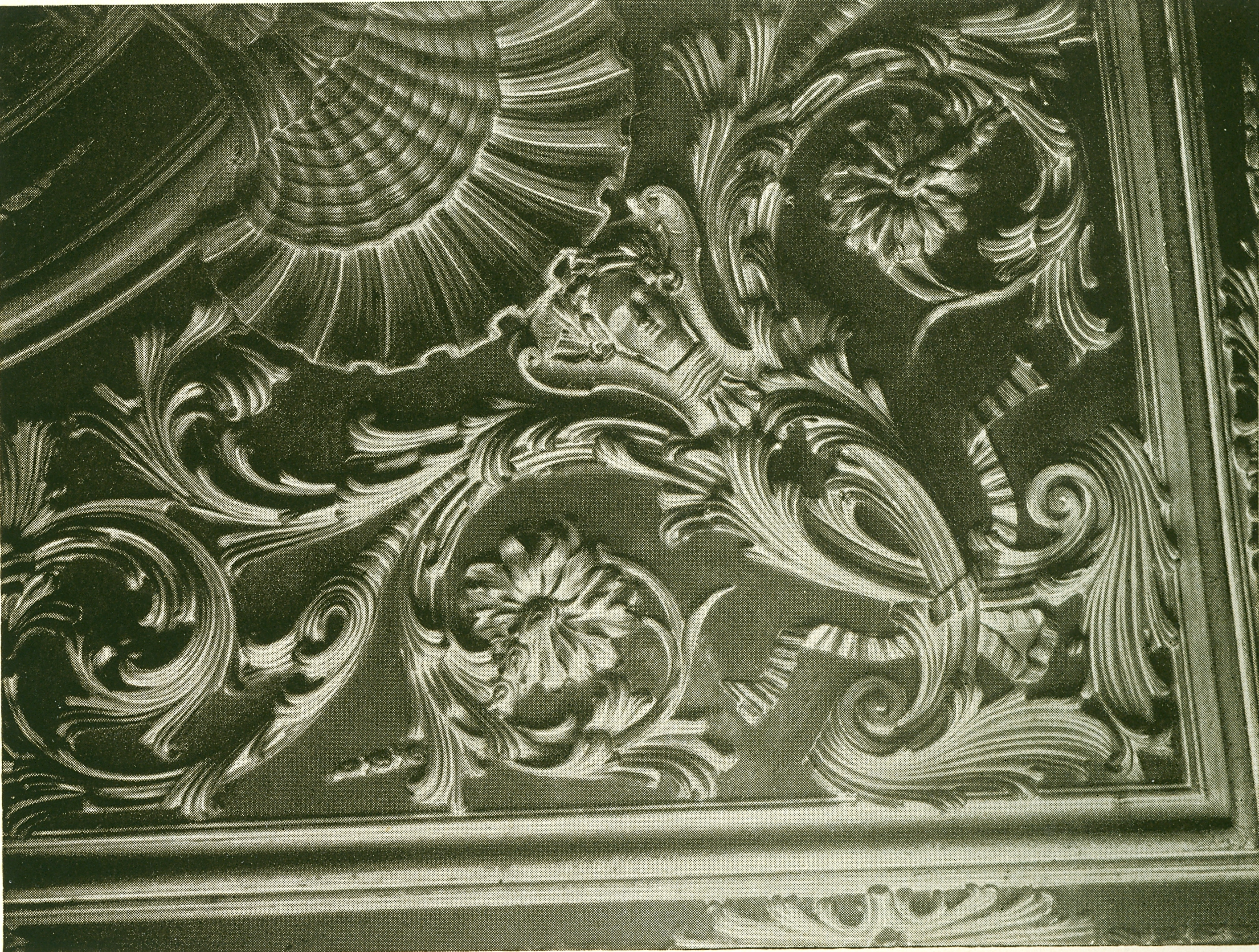 t